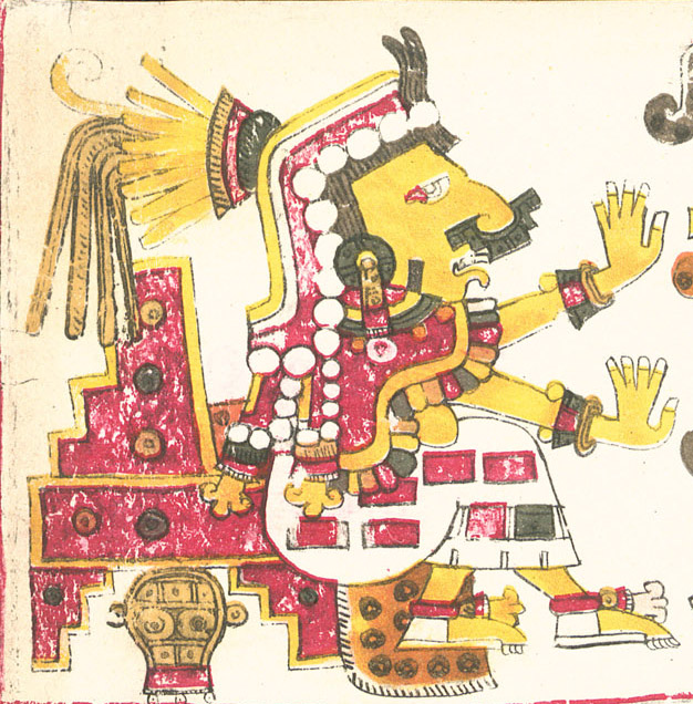 A drawing of Chantico, one of the deities described in the Codex Borgia